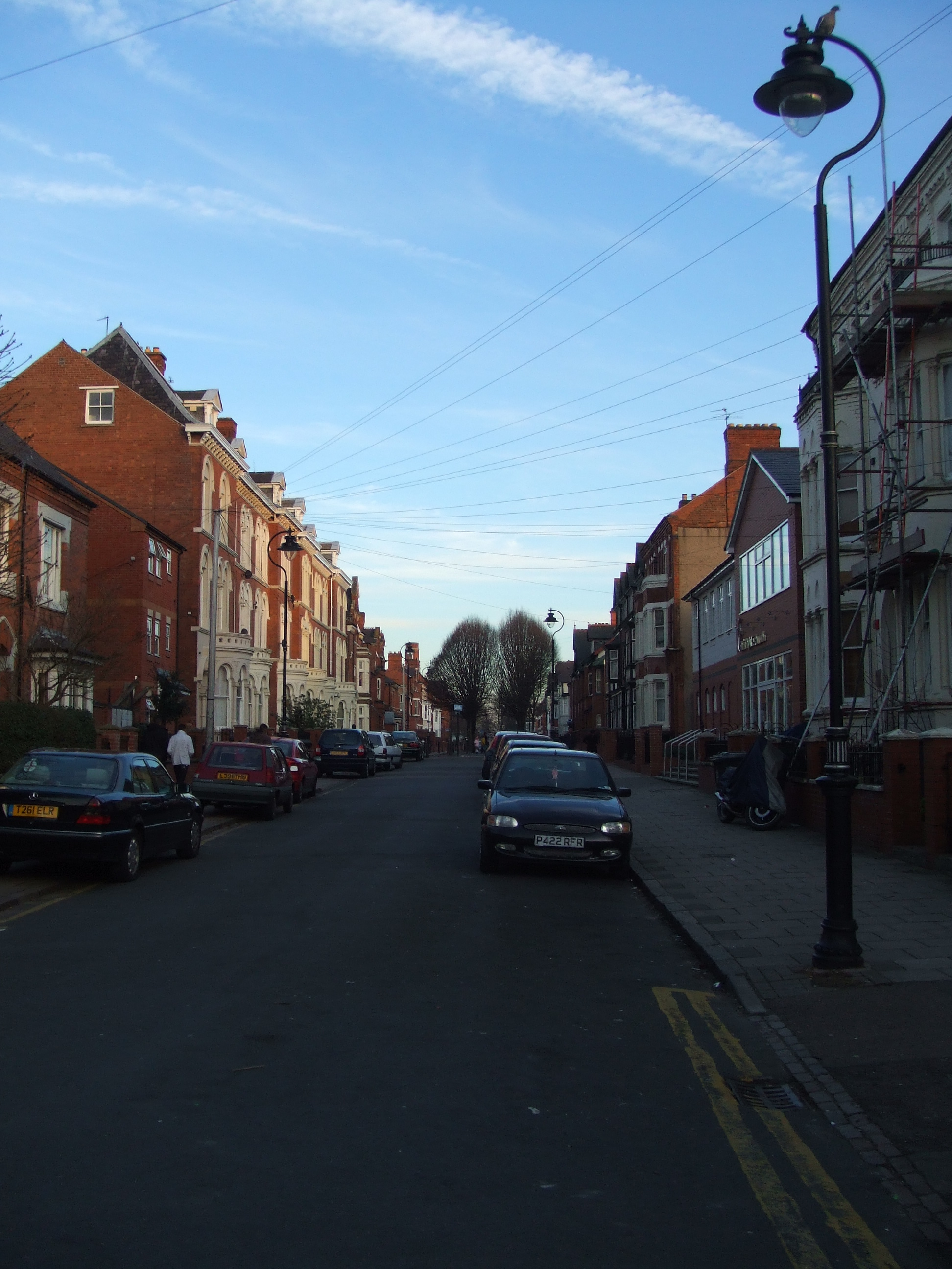 A picture of Tichbourne Street, Leicester